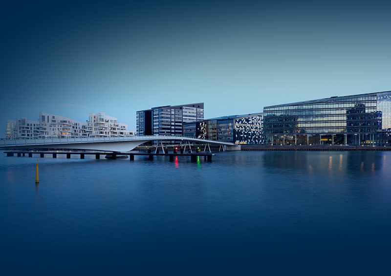 Havneholmen København